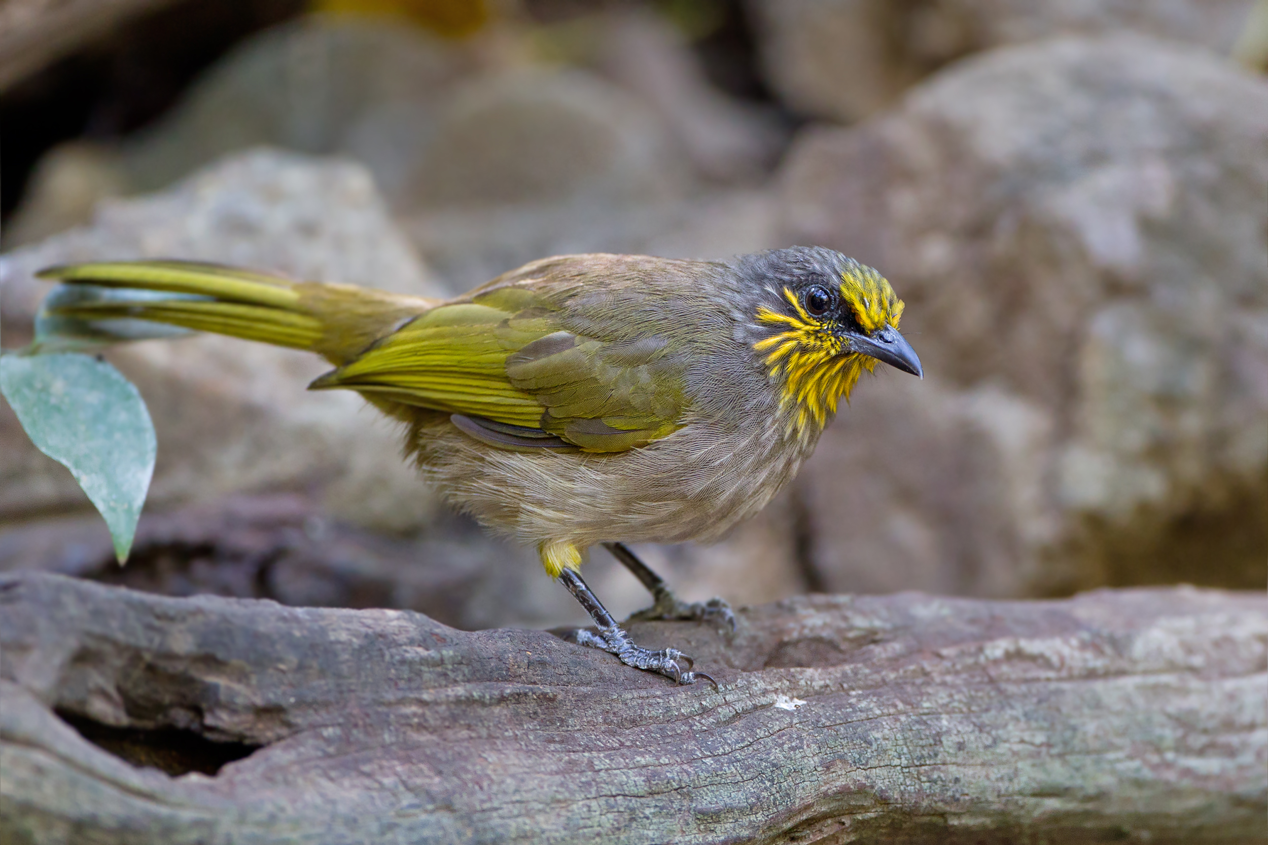 Stripe-throated Bulbul (Pycnonotus finlaysoni), Kaeng Krachan, Petchaburi, Thailand